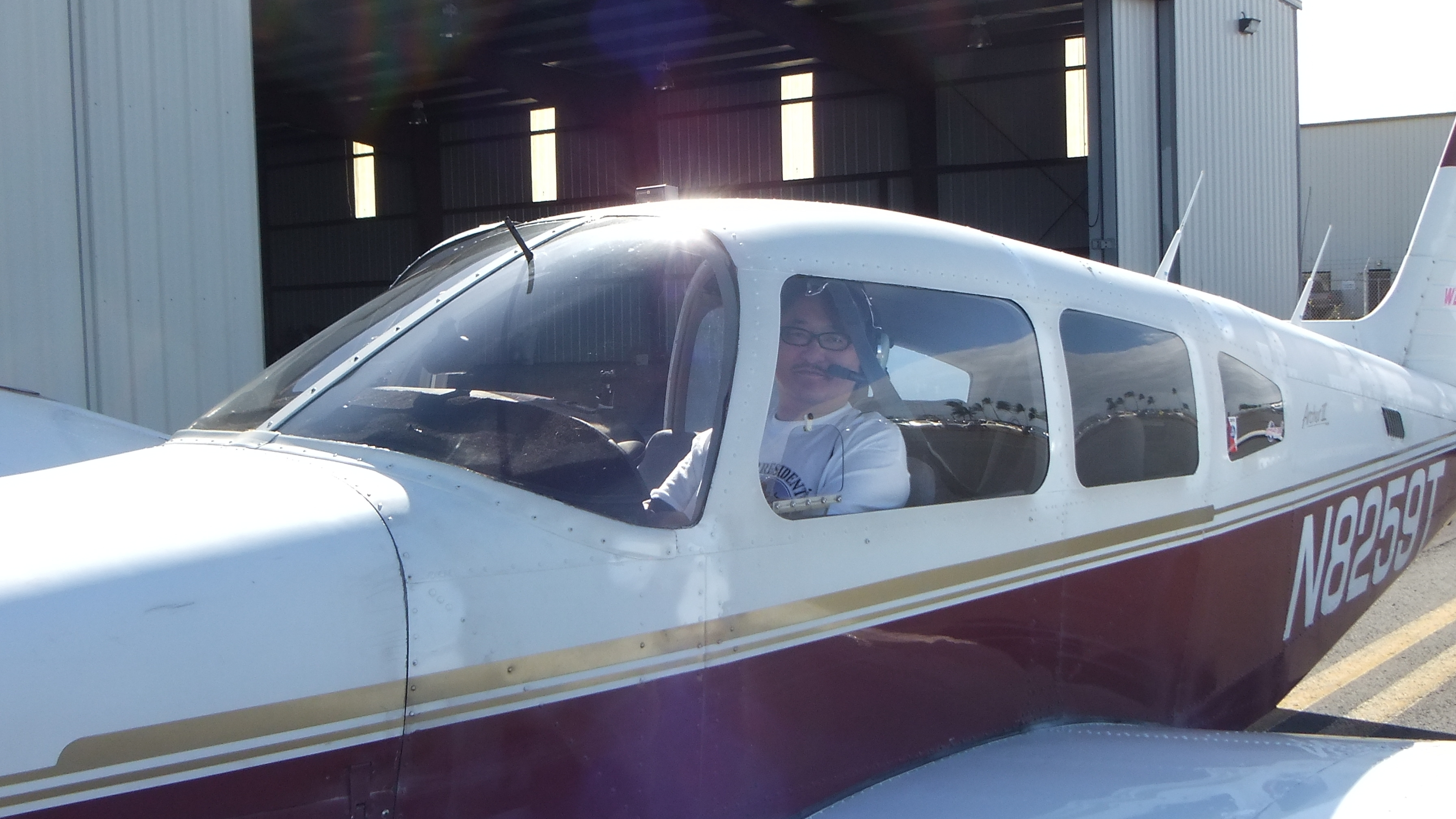 Keisuke Shinohara in the cockpit of the piper